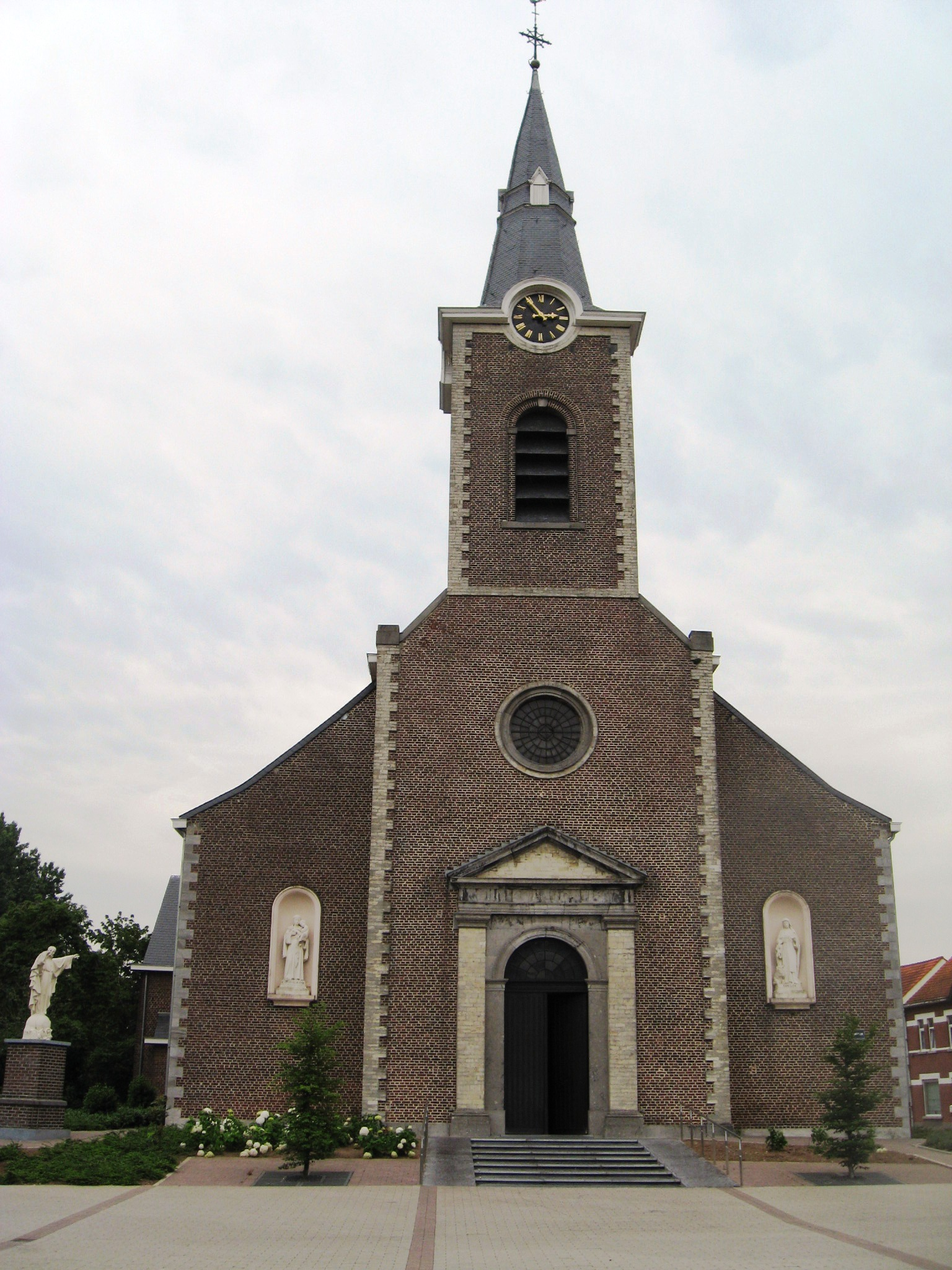 Church of Saint Brigid in Koersel, Limburg, Belgium